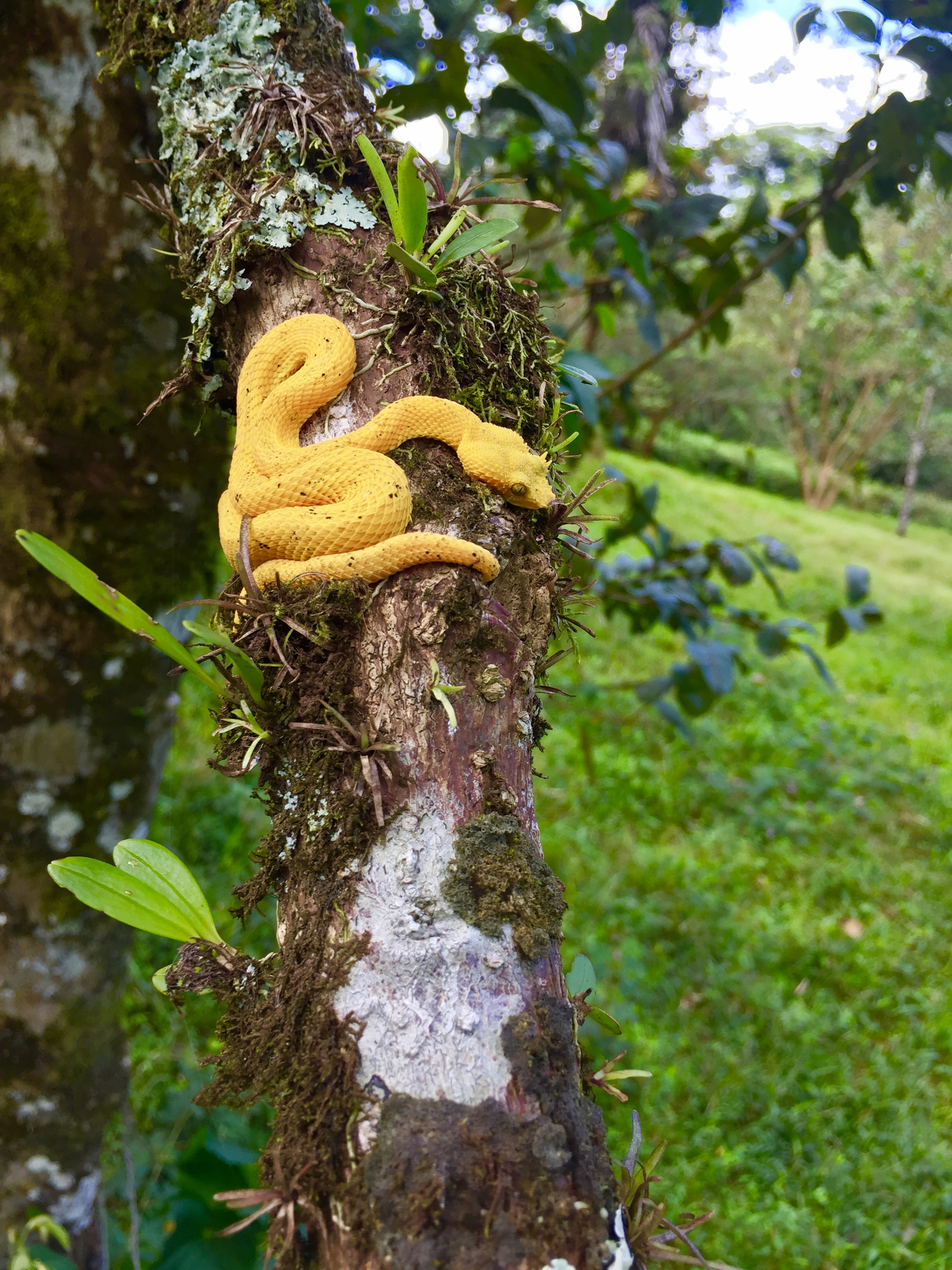 Eyelash viper Costa Rica, in Mirador El Silencio near Arenal Volcano